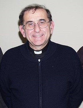 Mario Delpini, Metropolitan Archbishop of Milan